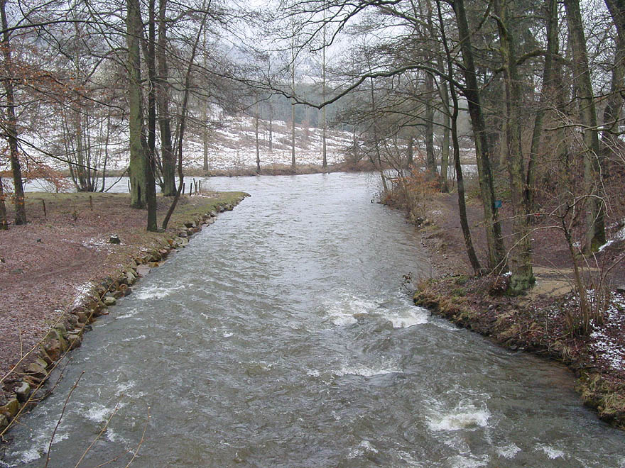 Photograph of the Eau Rouge stream meeting the river Amblève near Stavelot. Photograph taken by David Edgar on 11th March 2006.